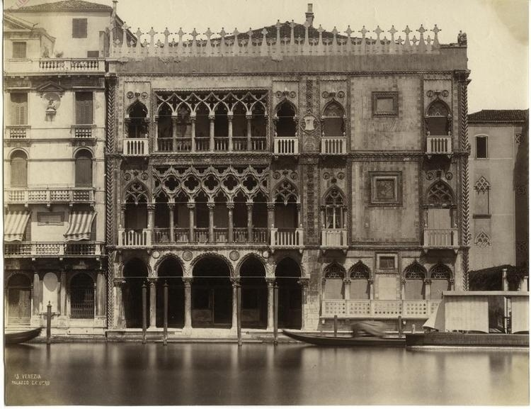 Carlo Naya (1822-1881) - "Venice. Ca' D'Oro Palace". Catalogue # 15.